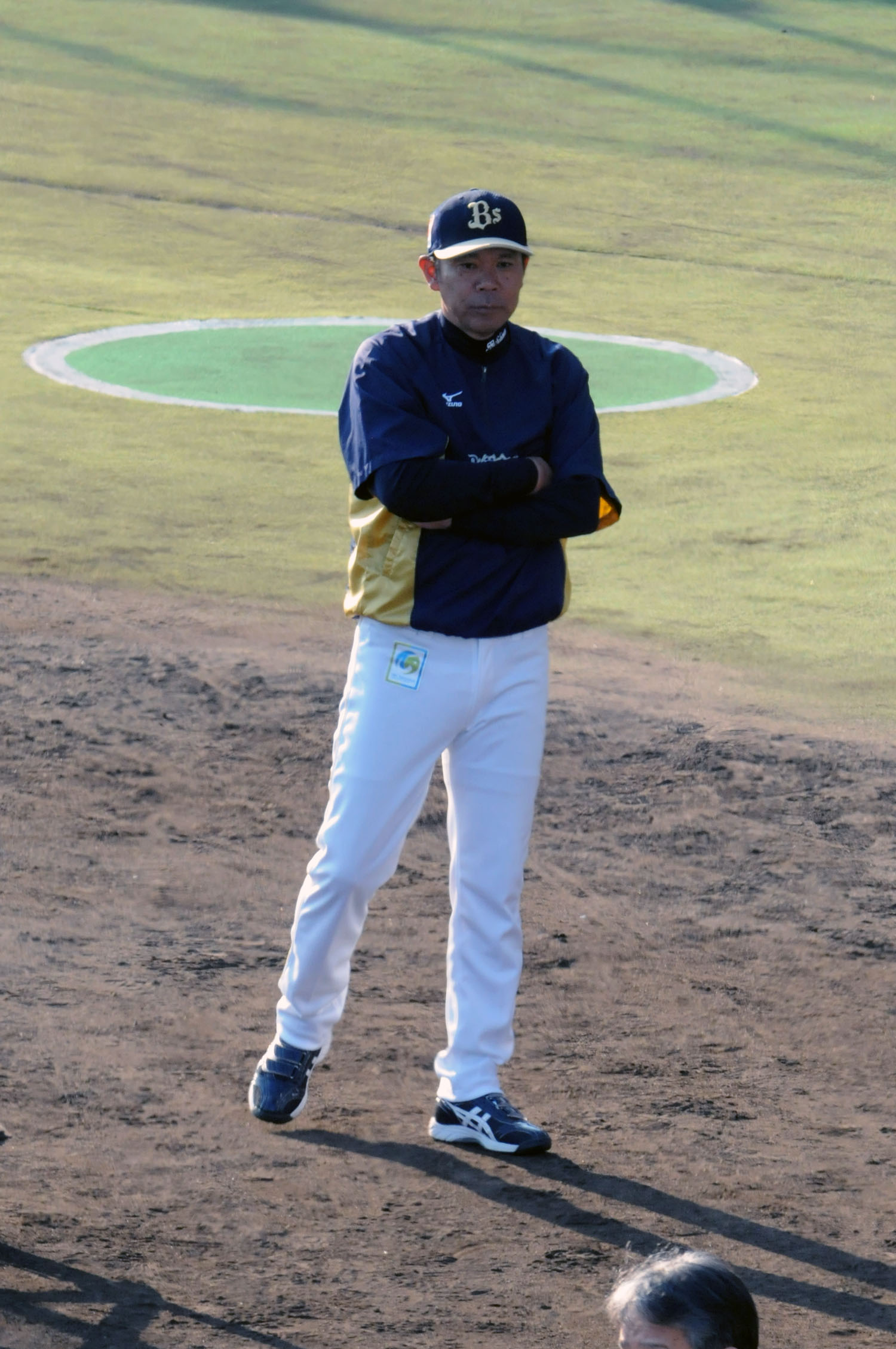 Norifumi Nishimura, coach of the Orix Buffaloes, at Akita Prefectural Baseball Stadium